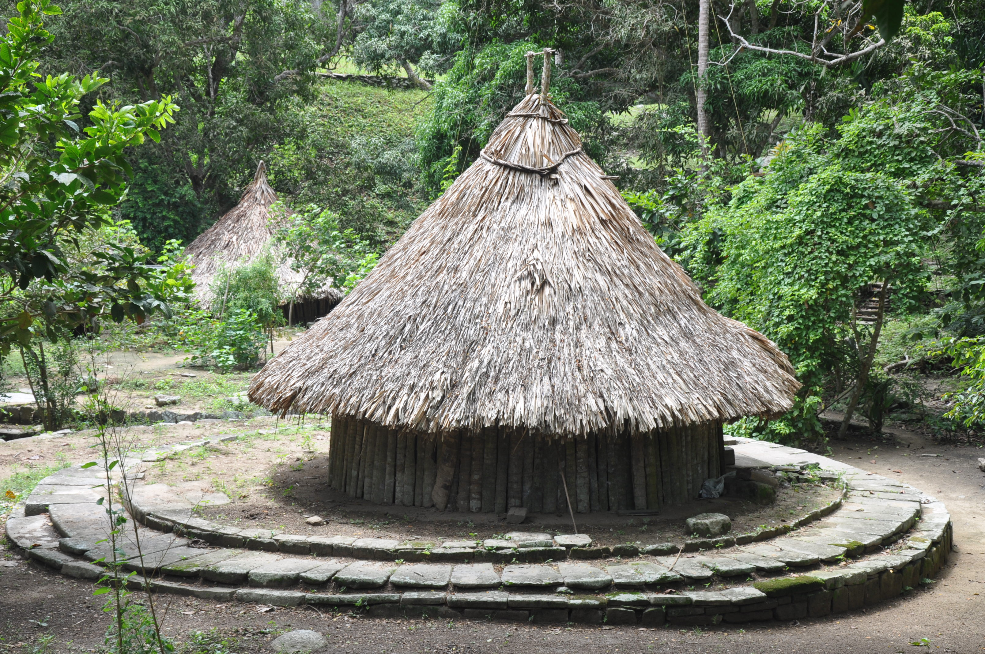 The Tayrona National Natural Park (Spanish: Parque Nacional Natural Tayrona) is a protected area in the Colombian northern Caribbean region and within the jurisdiction of the Department of Magdalena and some 34 km from the city of Santa Marta. The park presents a biodiversity endemic to the area of the Sierra Nevada de Santa Marta mountain range presenting a variety of climates (mountain climate) and geography that ranges from arid sea level to 900 meters above sea level. The park covers some 30 square kilometres of maritime area in the Caribbean sea and some 150 km² of land.